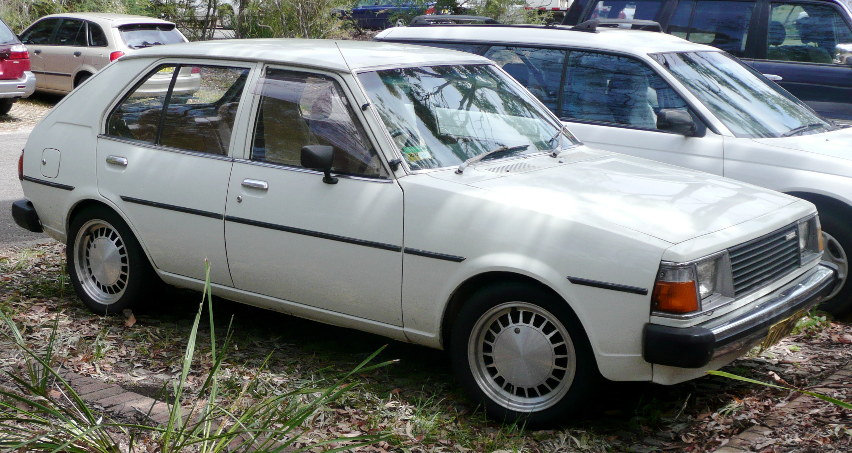 1980 Mazda 323 (FA4TS) 1.4 5-door hatchback. Photographed in Audley, New South Wales, Australia.